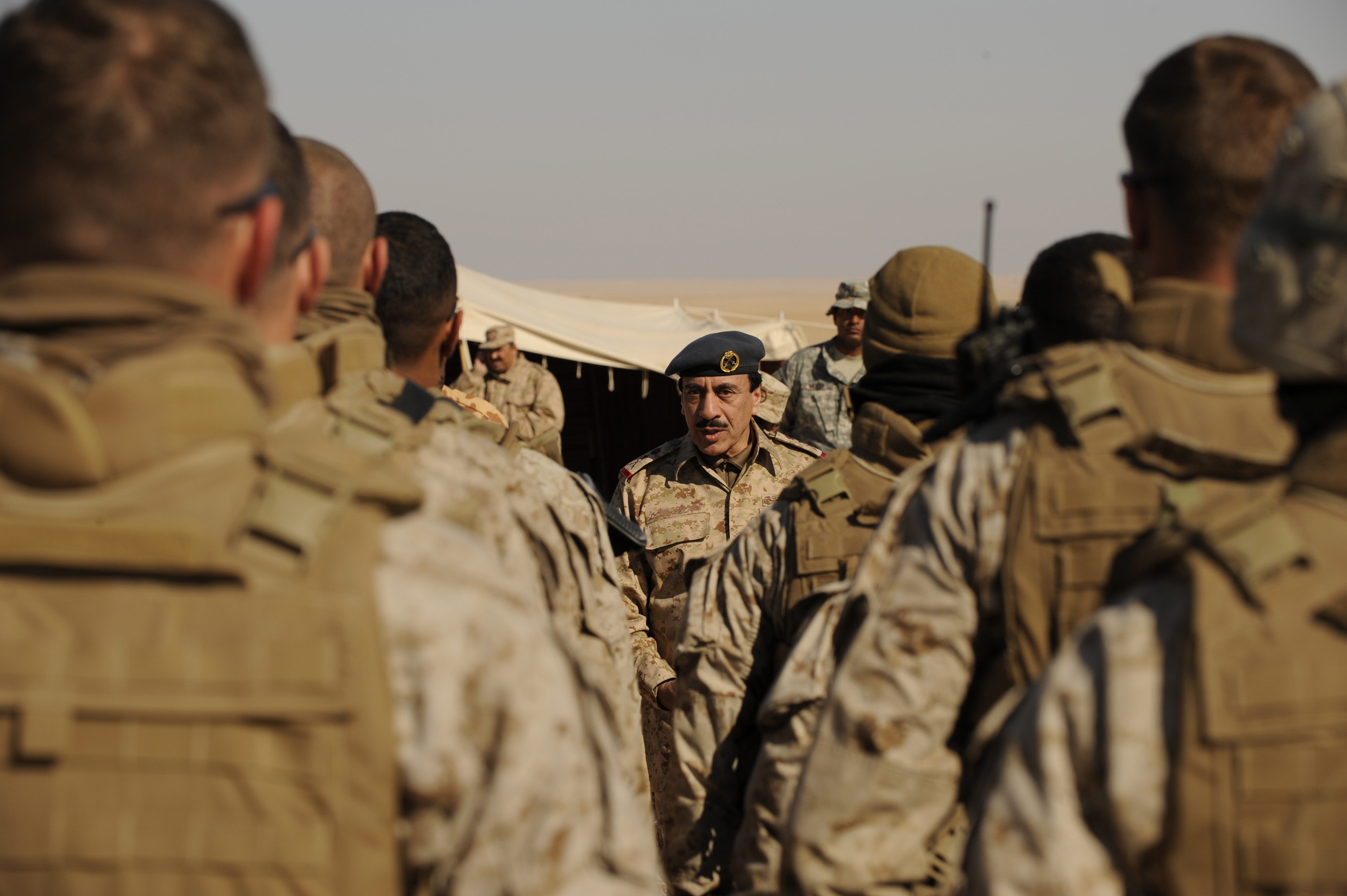 Photograph of Air Marshal Fahad Al-Amir (the Chief of Staff of the Kuwaiti Armed Forces) speaking to a group of US Marines from the 26th Marine Expeditionary Unit during a theater support collaboration exercise